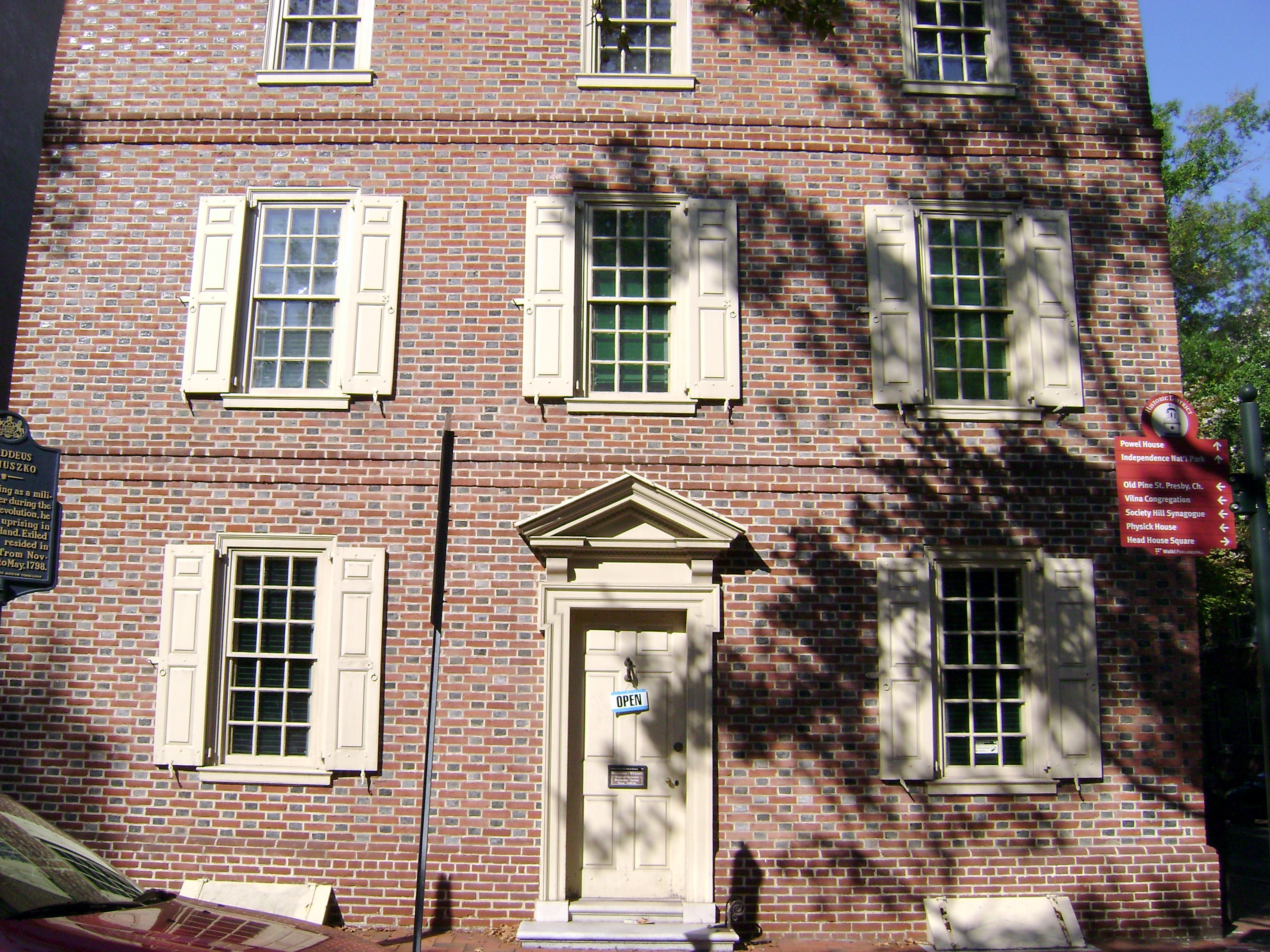 Thaddeus Kosciuszko National Memorial, 301 Pine St.